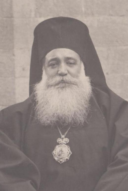 Boris of Ohrid, in 1924